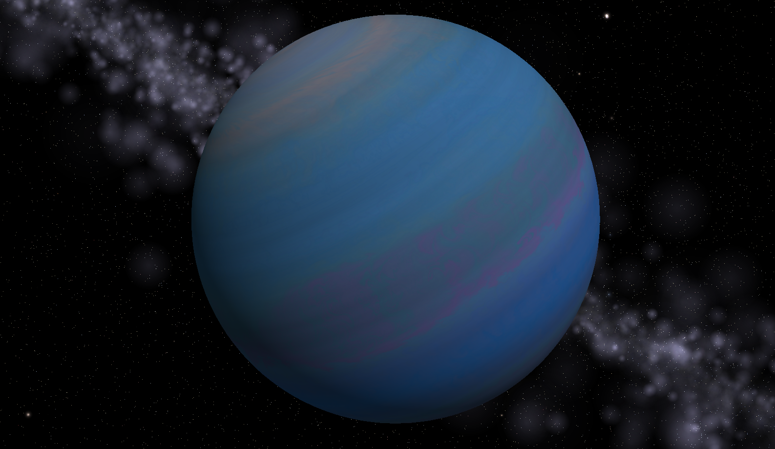 possible view of Gliese 876/e